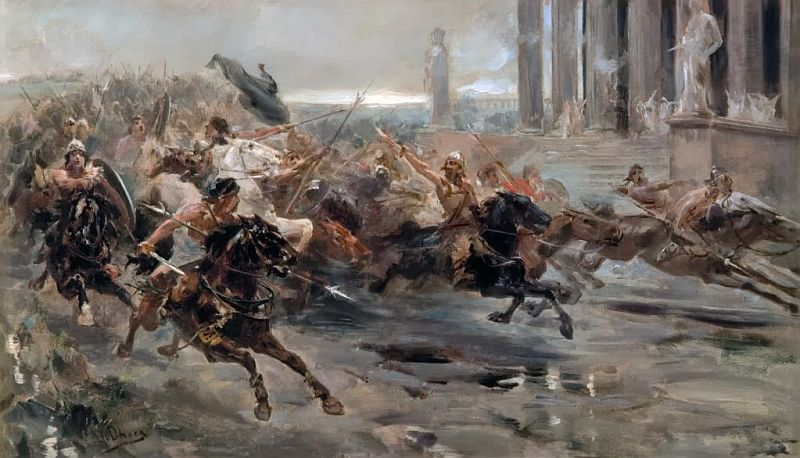 Invasion of the Barbarians or The Huns approaching Rome